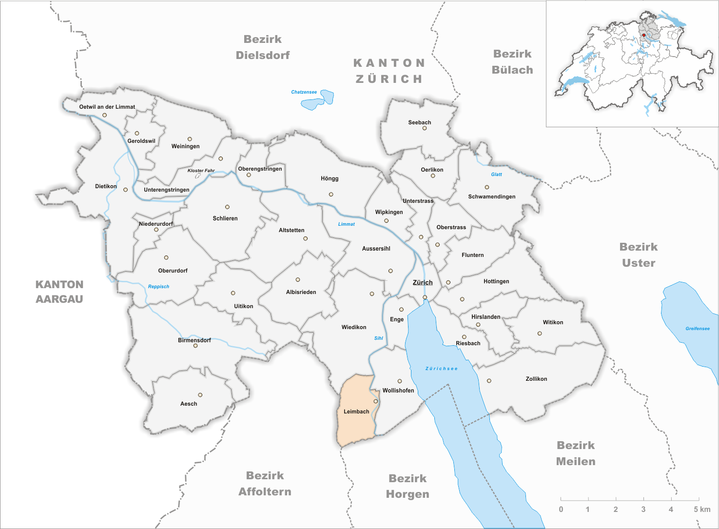 Municipality Leimbach